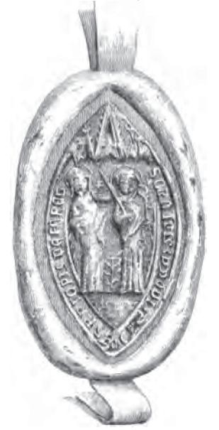 Seal of the Carthusian Priory of Perth, Scotland